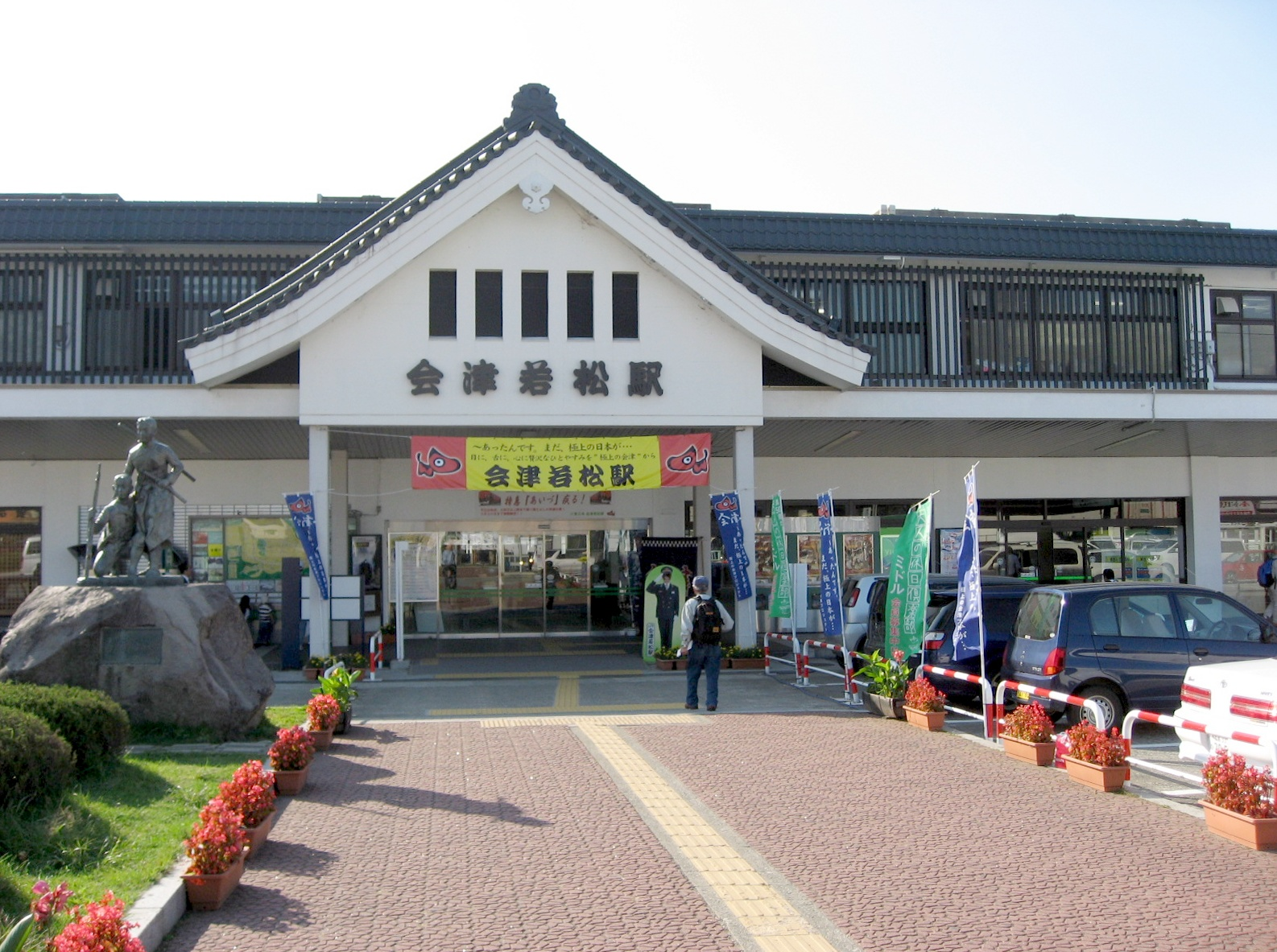 Main Entrance of Aizu Wakamatsu Station, Fukushima, Japan